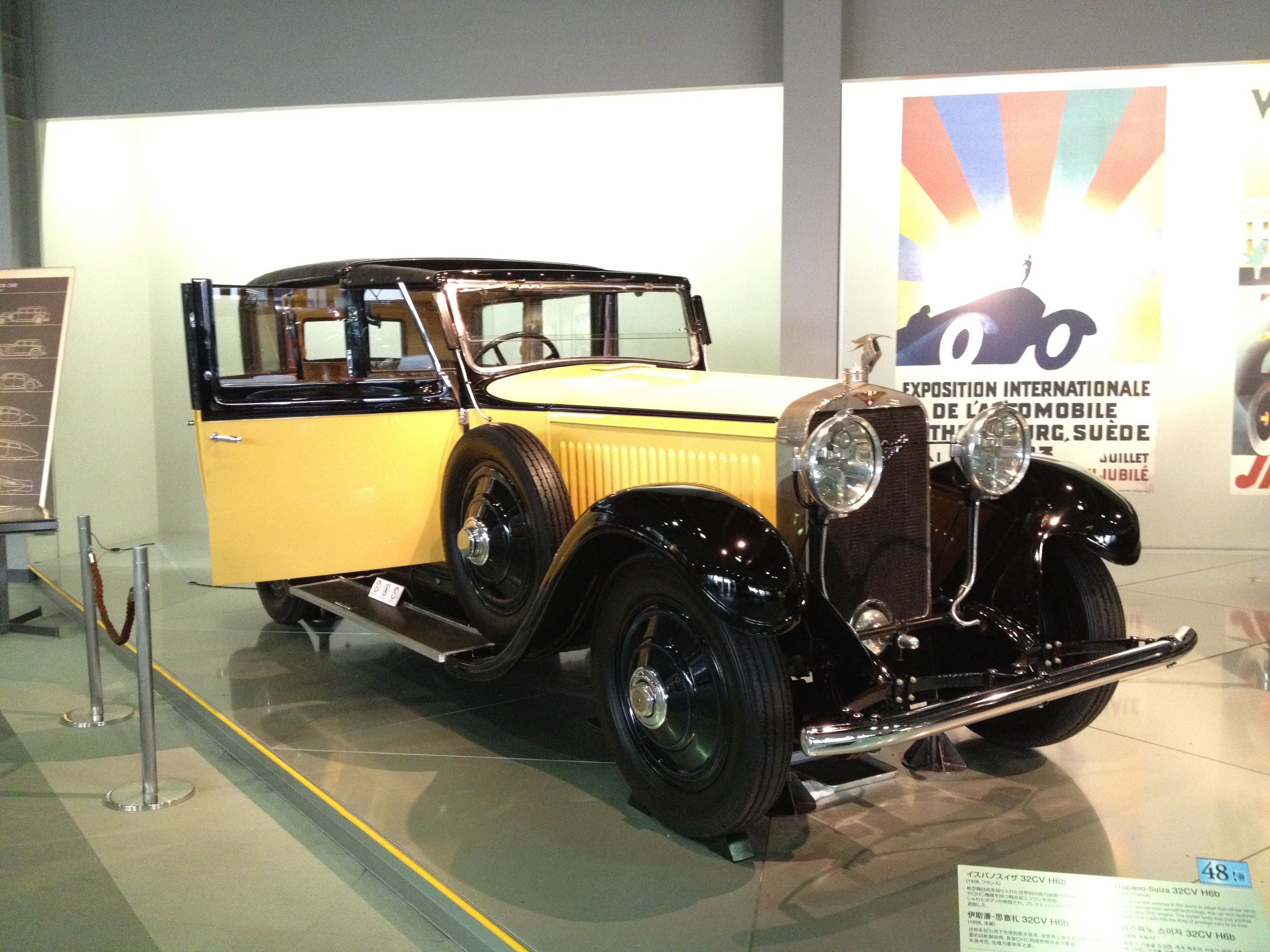 Hispano-Suiza 32CV H6b, 1928 Toyota Automobile Museum This photo was taken on February 2, 2012 in Nagakute-cho, Aichi Prefecture, JP, using an Apple iPhone 4S.